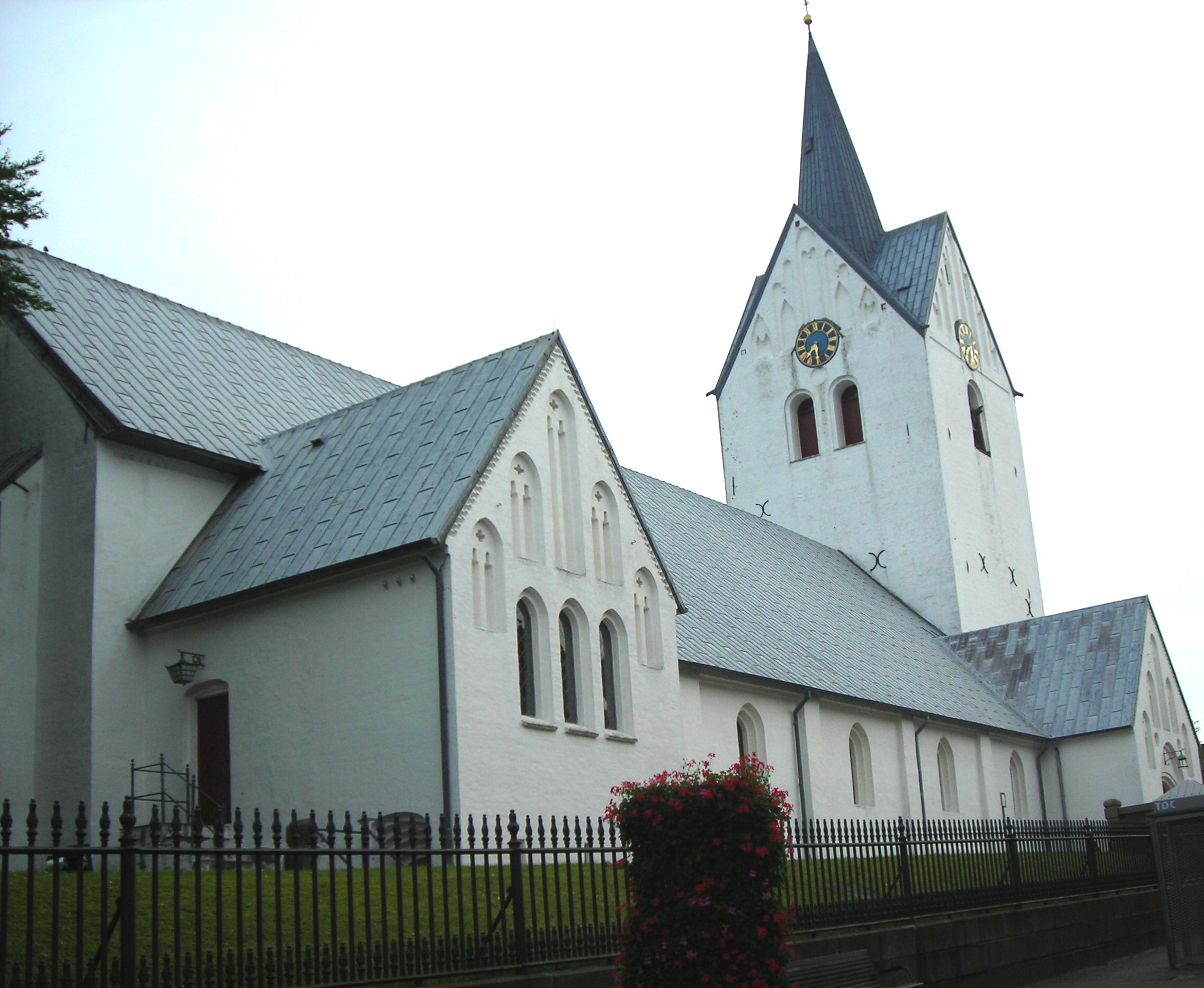 Thisted church, Denmark, July 2007